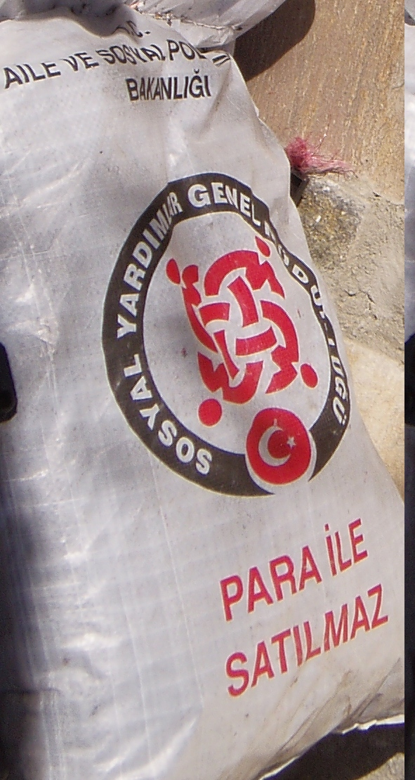 Free coal distributed to poor people by the Family and Social Policies Ministry (